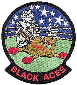 Patch of the VF-41 Black Aces US Navy (white tiger has knocked out camel labelled "LIBYA" in boxing match).